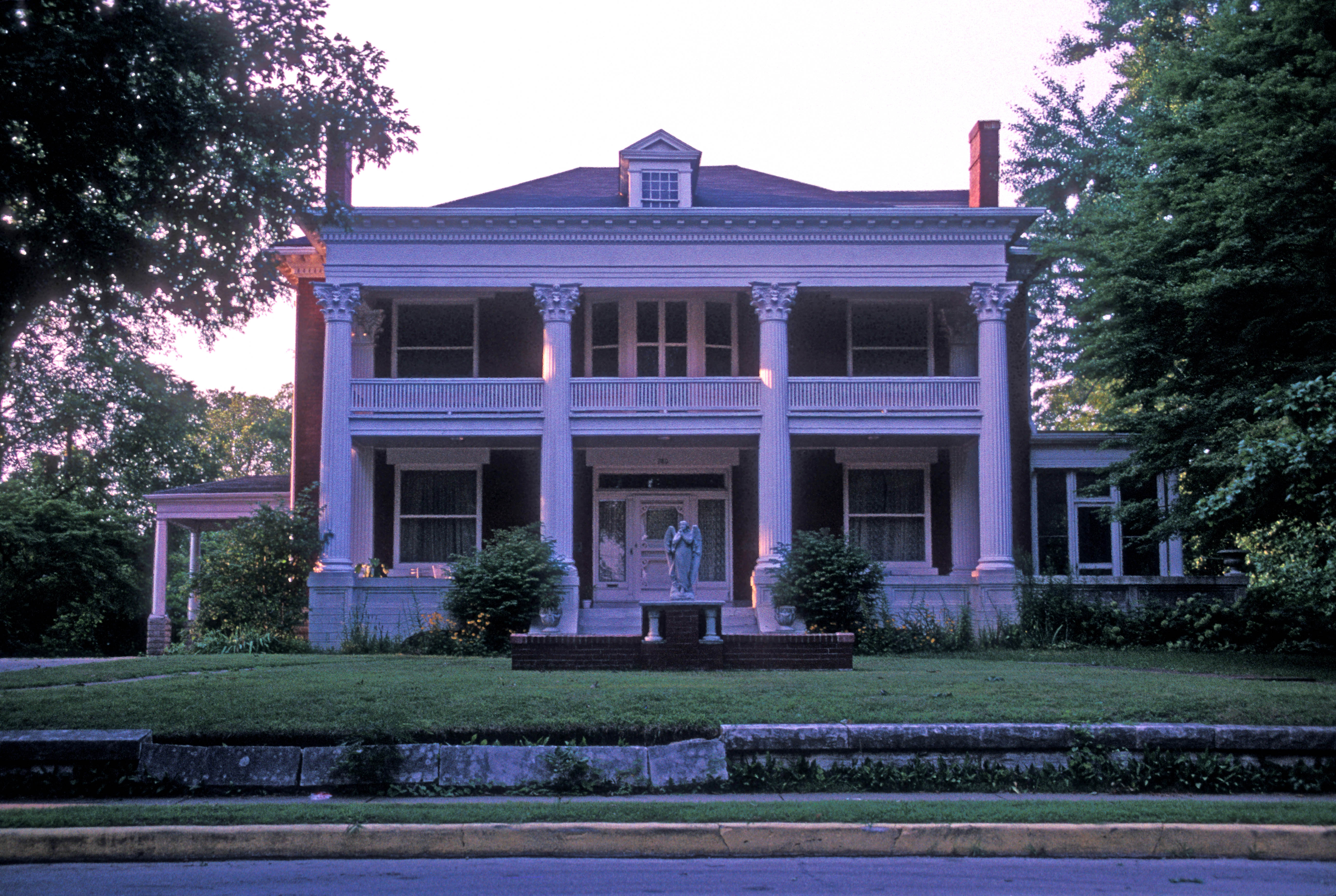 1893- HOME OF THE DESIGNER OF MISSOURI'S STATE FLAG